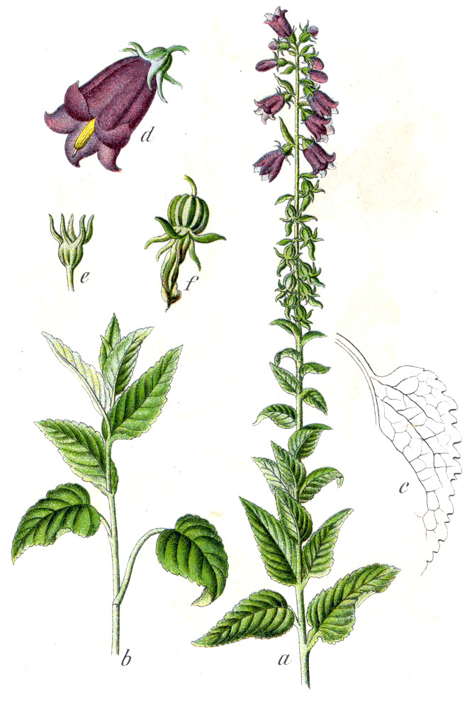 Campanula bononiensis L. Original Caption Bologneser Glockenblume, Campanula bononiensis